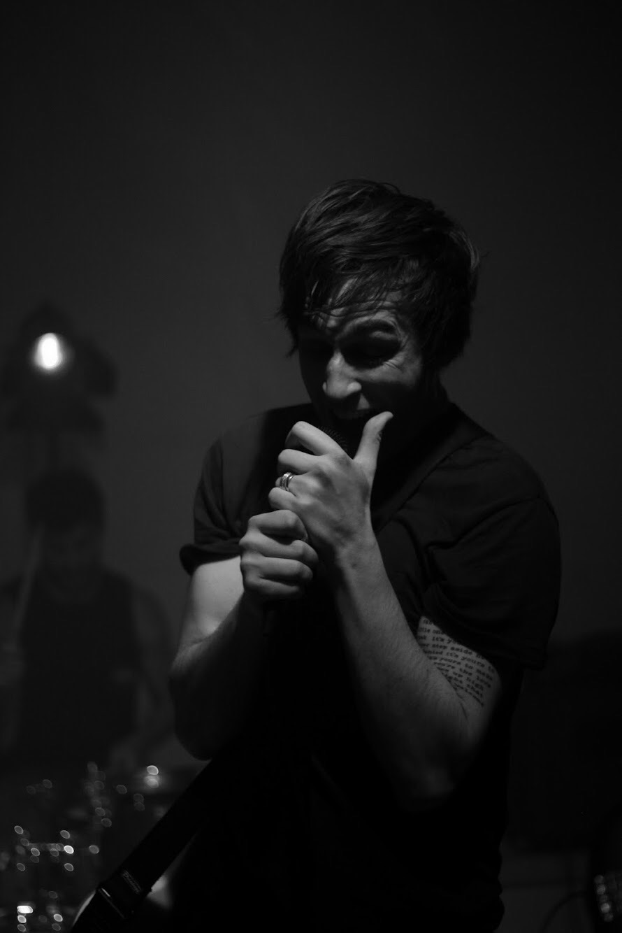 Lead vocals form Nowhere To Be Found